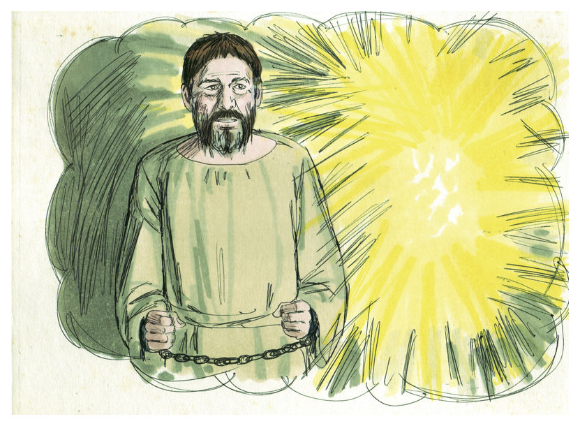 Biblical illustration of Second Epistle to Timothy Chapter 4